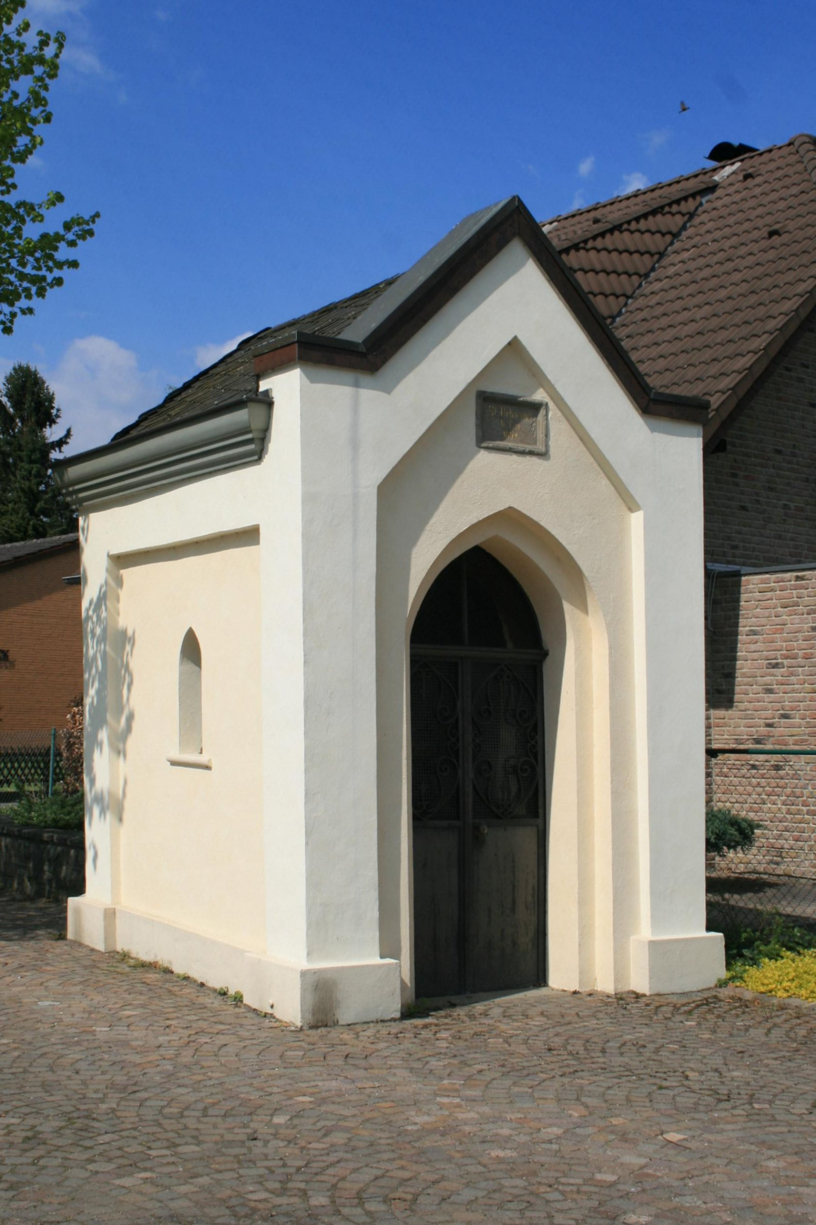 Cultural heritage monument No. 7/002 in Düren